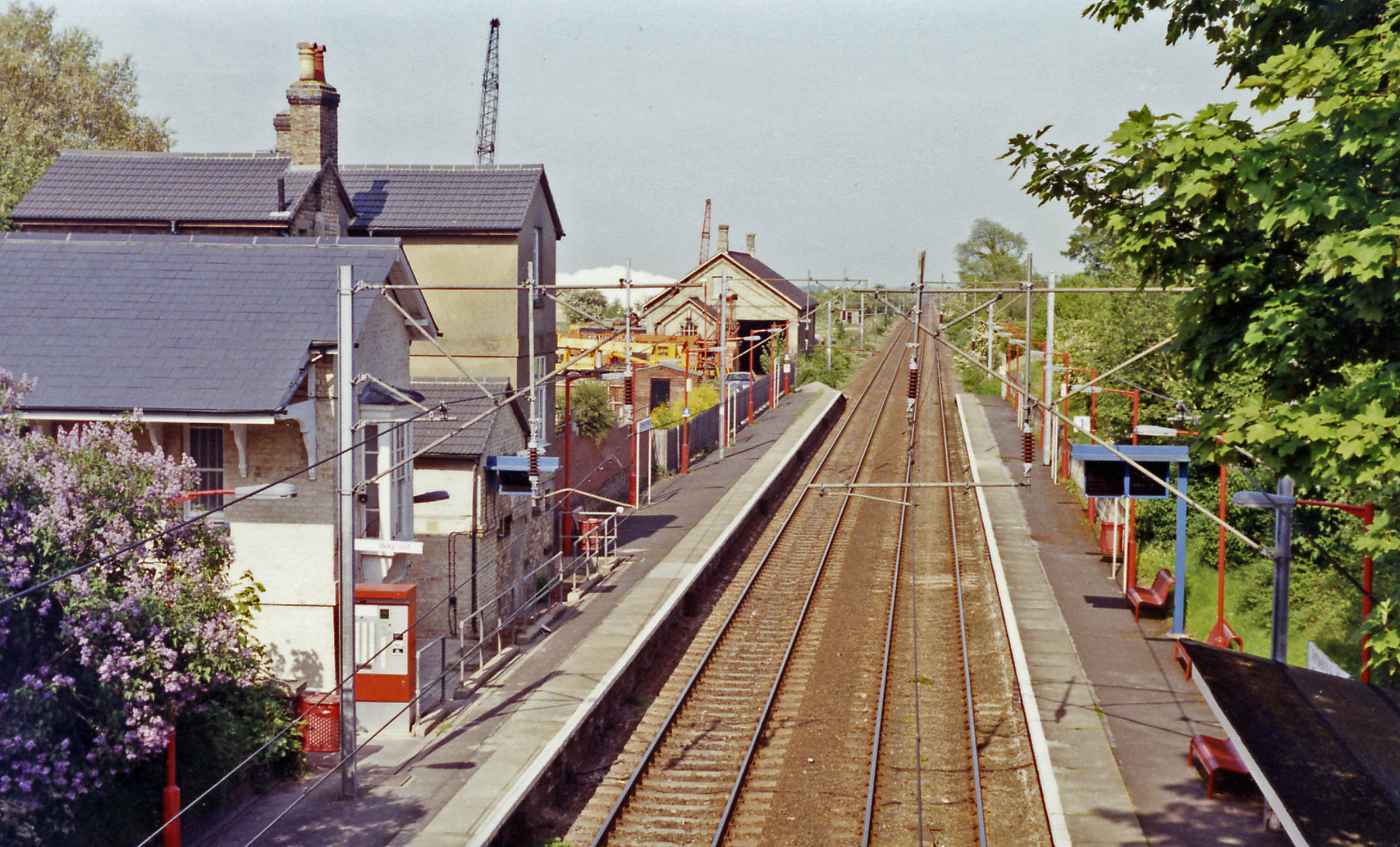 Ashwell & Morden station. View NE, towards Cambridge: ex-GNR Hitchin - Cambridge seondary main line. The line was electrified in 1978 and is flourishing.